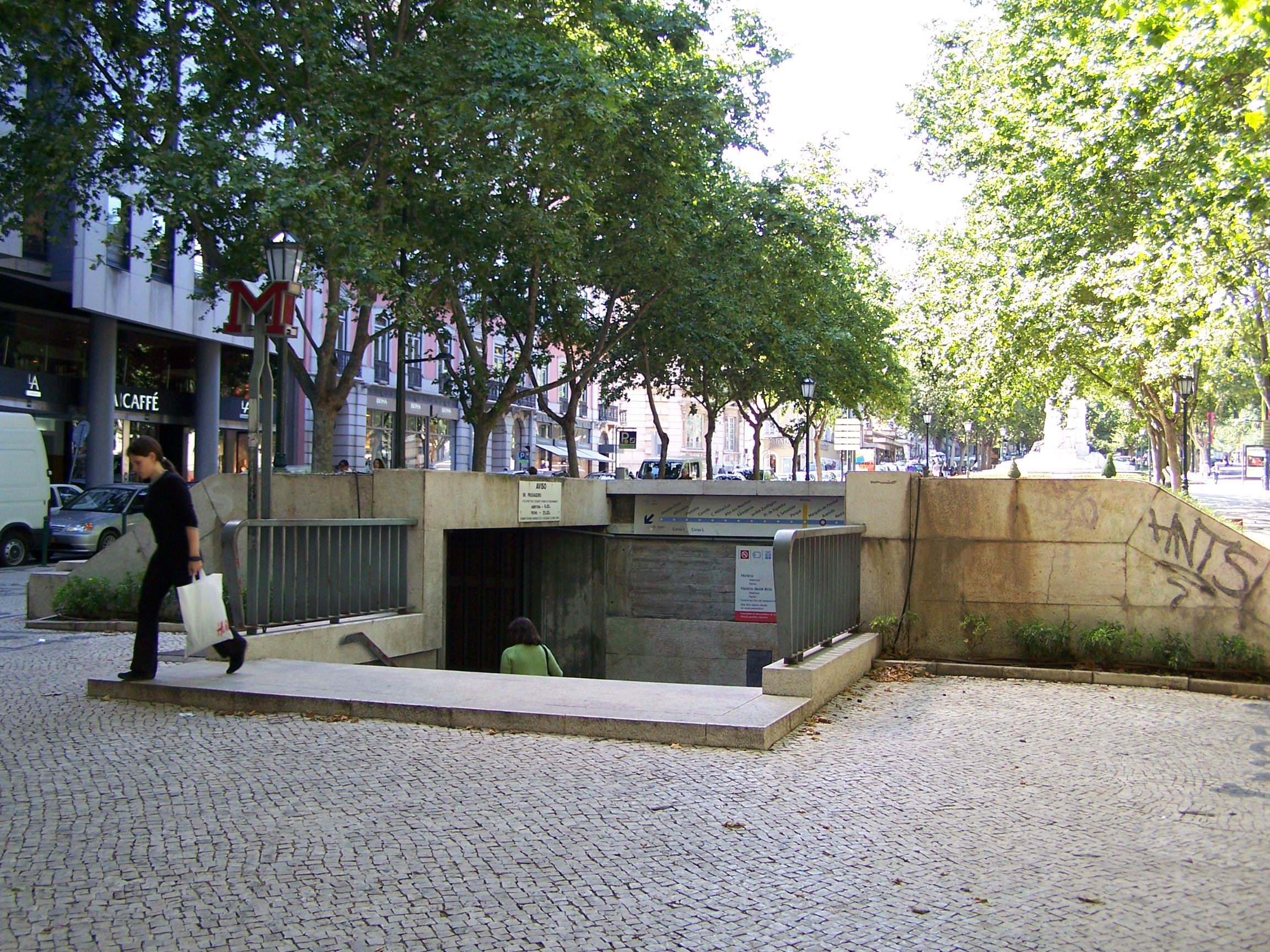 entrance to the underground station Avenida, Lisbon, Portugal